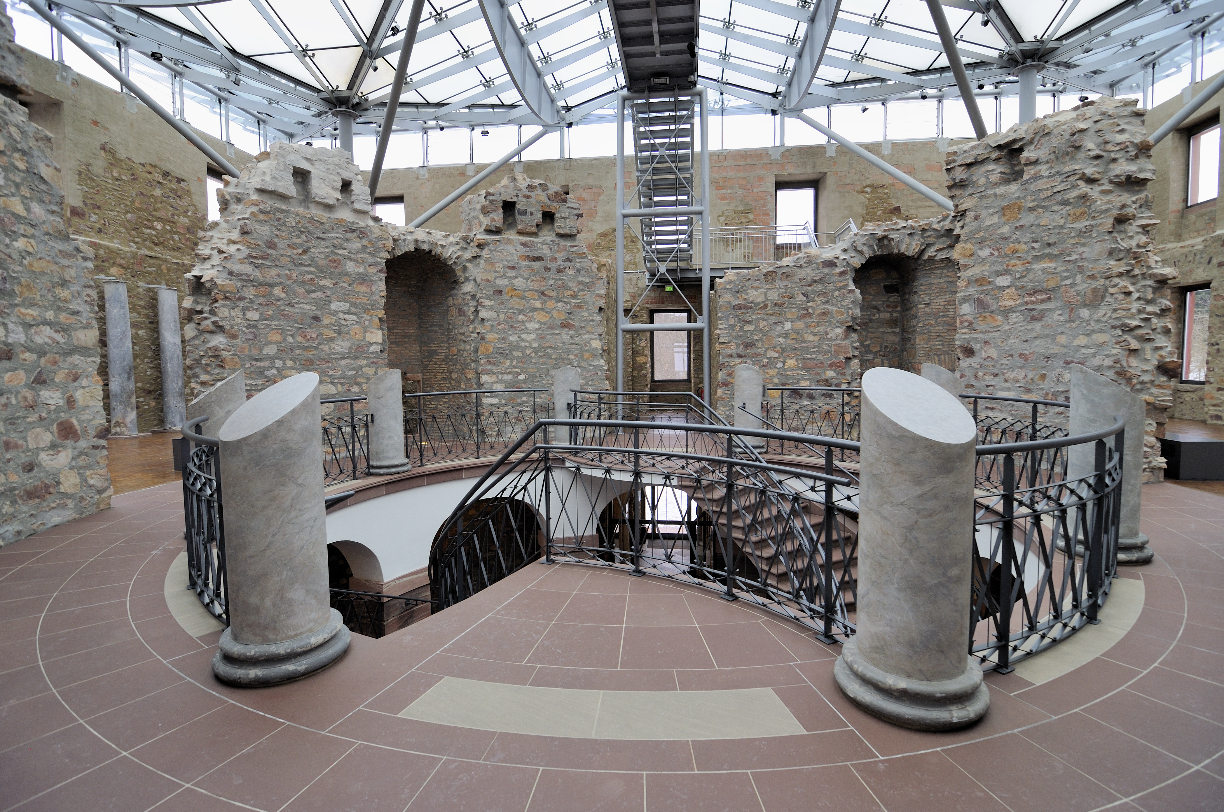 Jagdschloss Platte, near Wiesbaden (Germany).